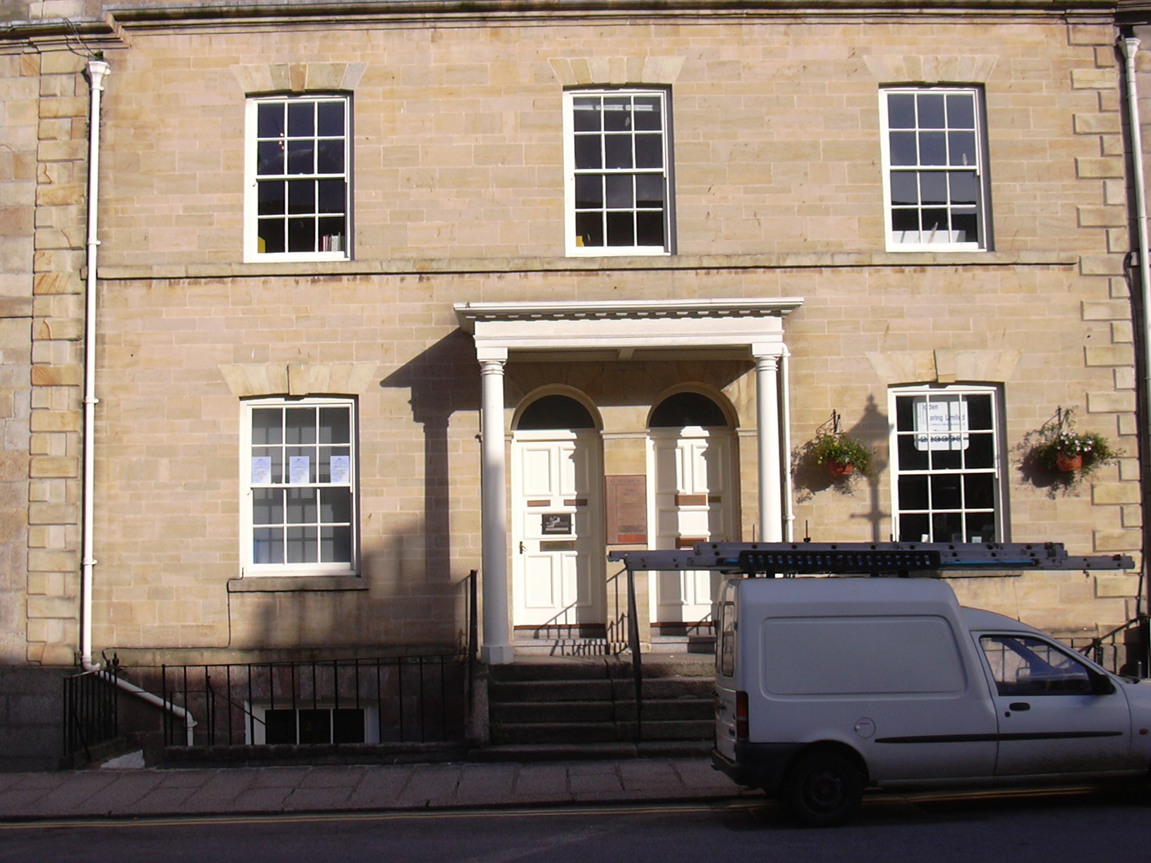 Dignified house in Lemon Street, Truro, Cornwall